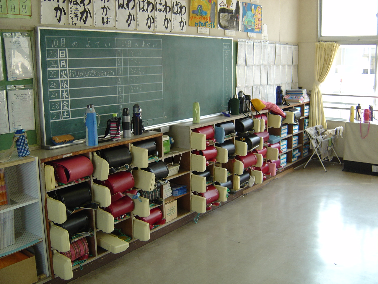 A typical classroom in a Japanese elementary school. These cubbies in the back of a classroom is the designated area for elementary-school-style backpacks (black for boys, red for girls). Every student (1st and 2nd graders) owns a melodica in a lomon-yellow (or blue) case. The blackboard shows the weekly calendar (October 23-29) and the daily calender (1st-5th periods).